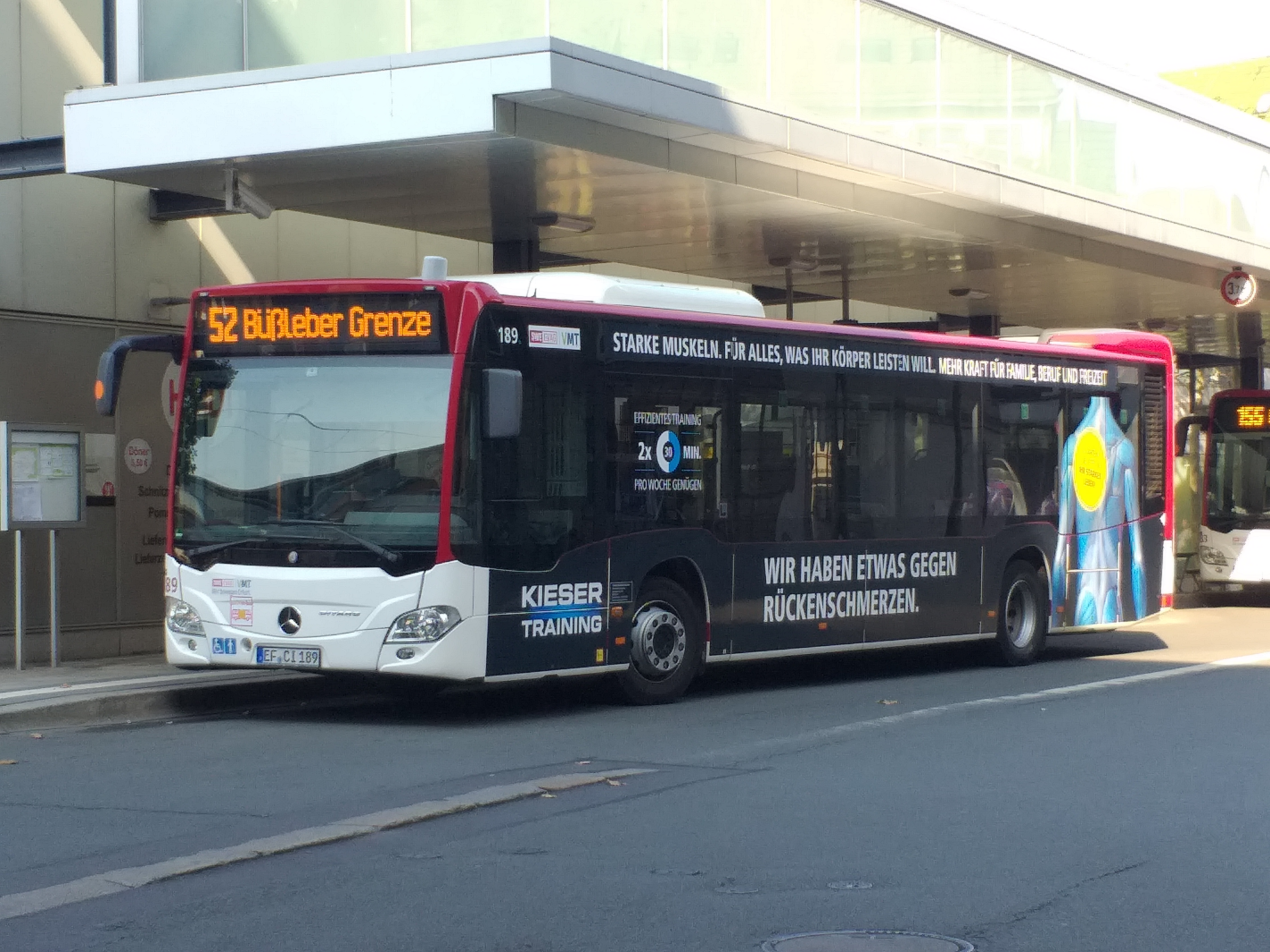 Bus 189 on EVAG line 52 at Erfurt Bus Station, 2019-09-10